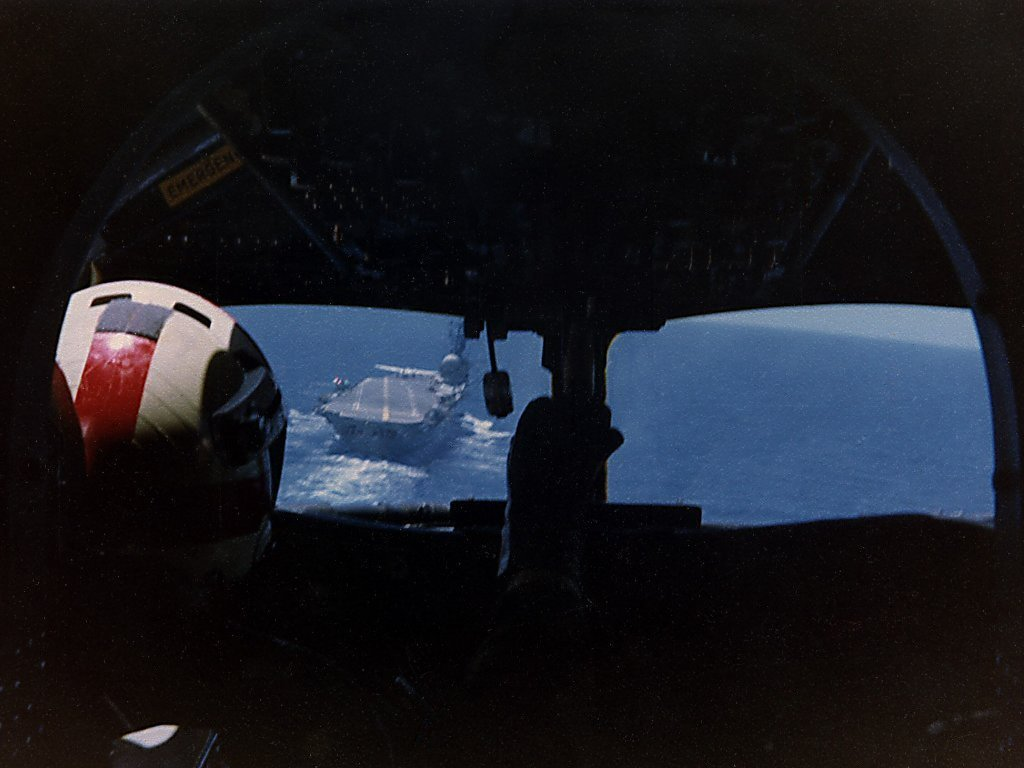 Photograph taken from a Grumman S2G Tracker on final approach to HMAS Melbourne. Copyright (C) 1980 Nick Thorne Everyone is permitted to copy, distribute and use copies of this photograph for any purpose, but the copyright holder asserts the right to be identified as the photographer.